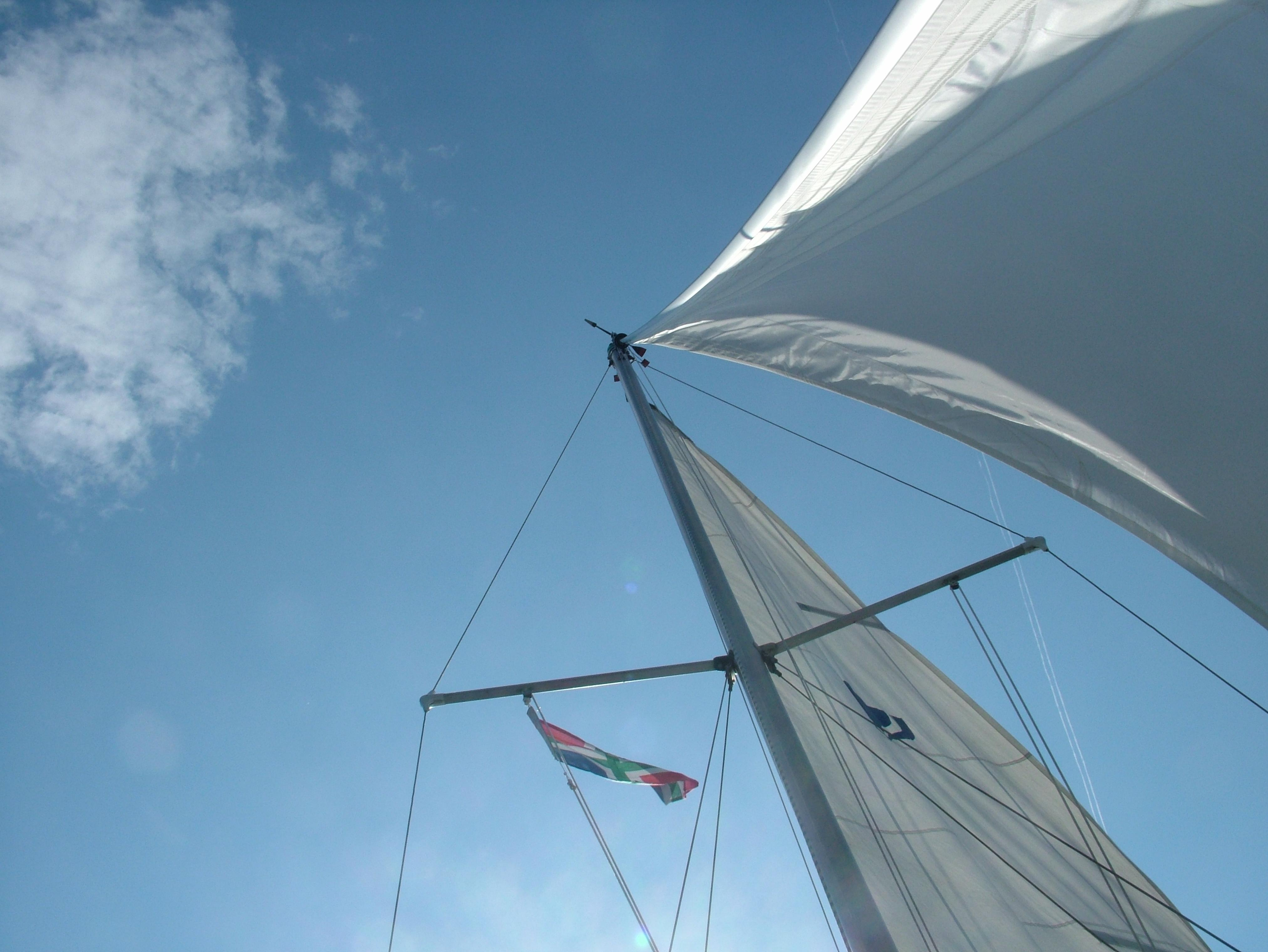 Vessal seen from below